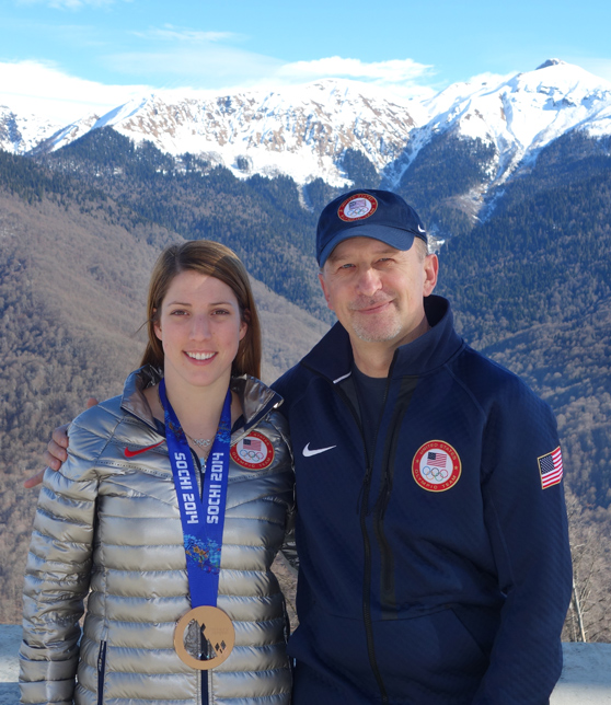 Miro Sochi 2014